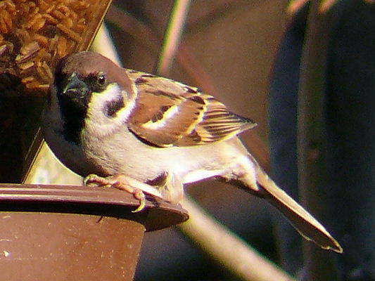 Passer montanus